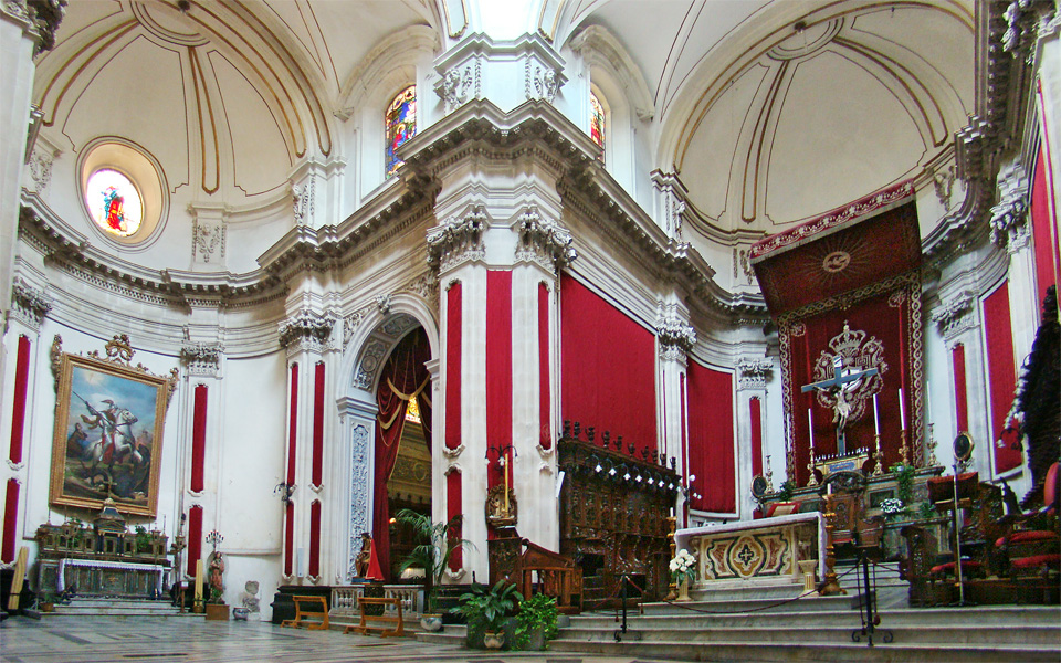 Cathedral of San Giorgio, Ragusa Ibla, Sicily, Italy.